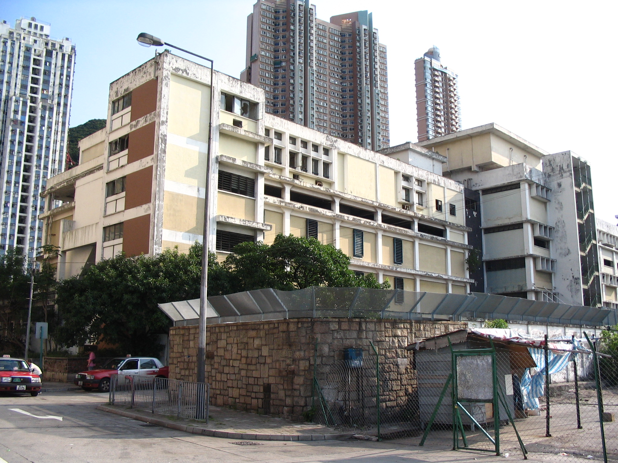 Photo of Kennedy Town Abattoir